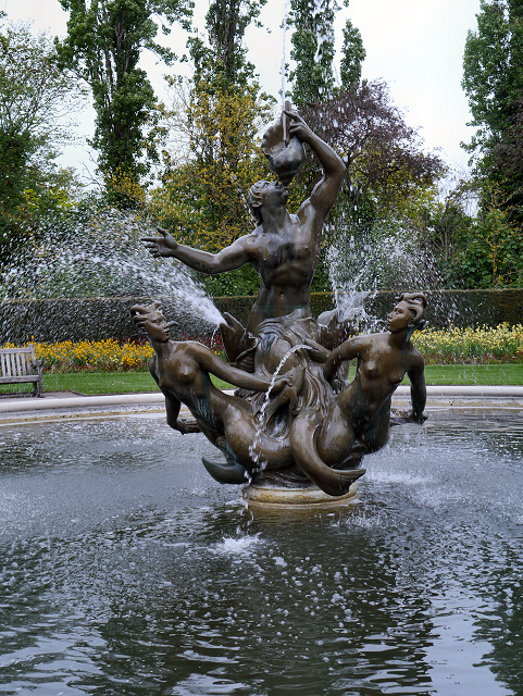 Bronze sculptures of a sea god or triton blowing on a conch shell with two mermaids at his feet. The group stand in the centre of a round pool. The sculpture dates from 1950 and stands on the site of a former conservatory belonging to the Royal Botanical Society, which gave up the site in 1931. Commemorating Sigismund Goetze.